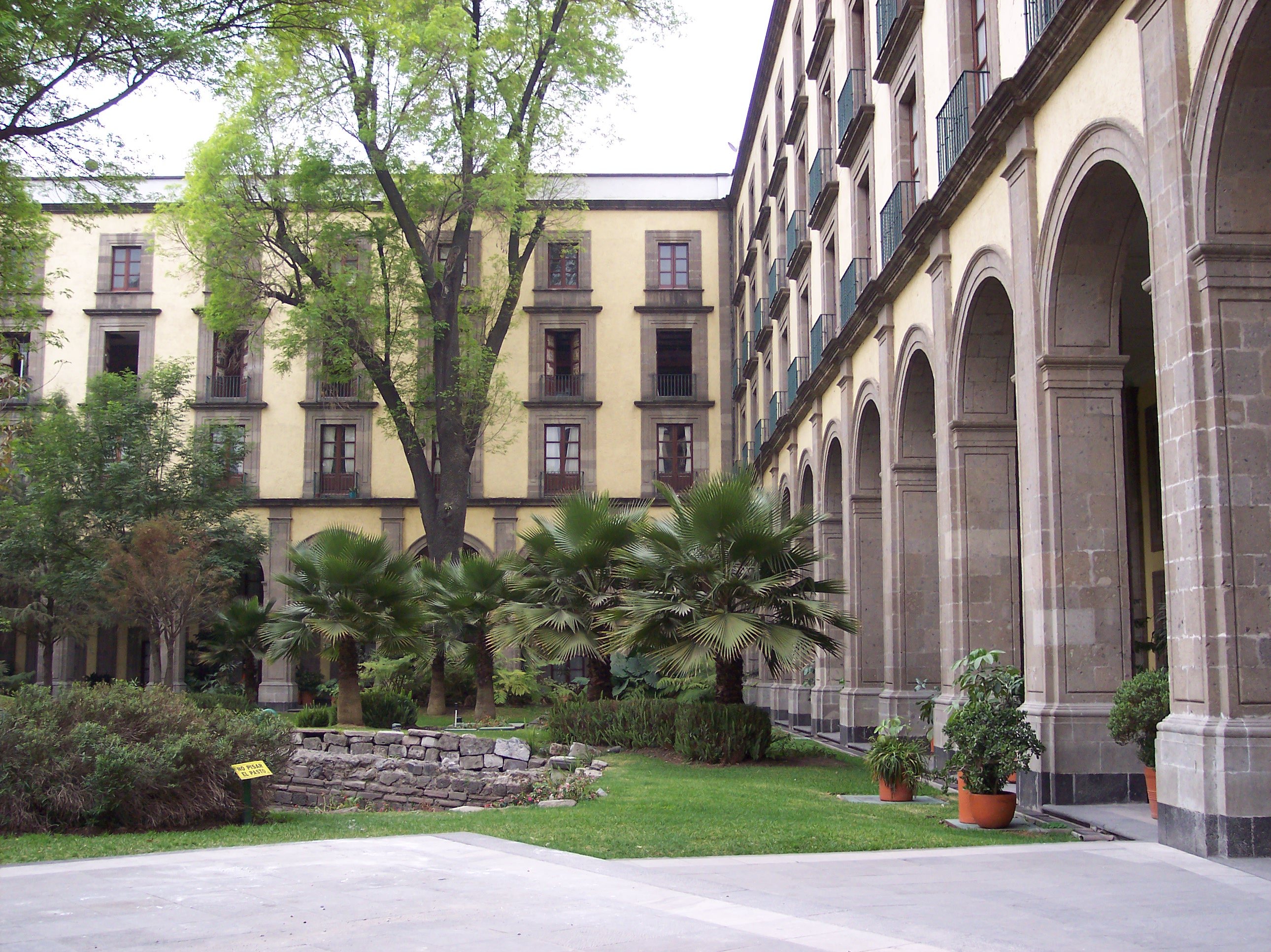 Courtyard garden at the National Palace of México City — located in the historic center of México City, México.